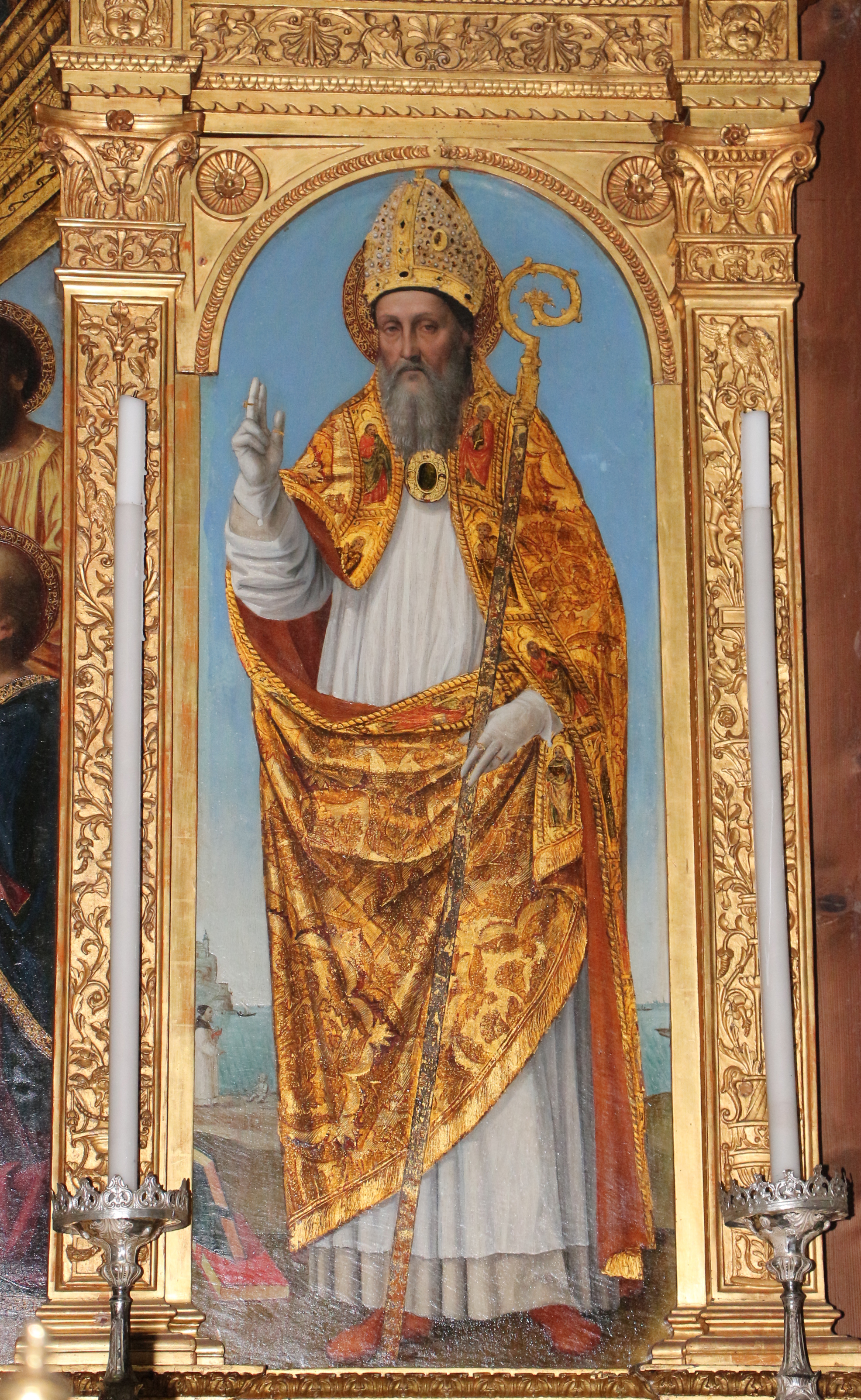 Santo Spirito (Bergamo)